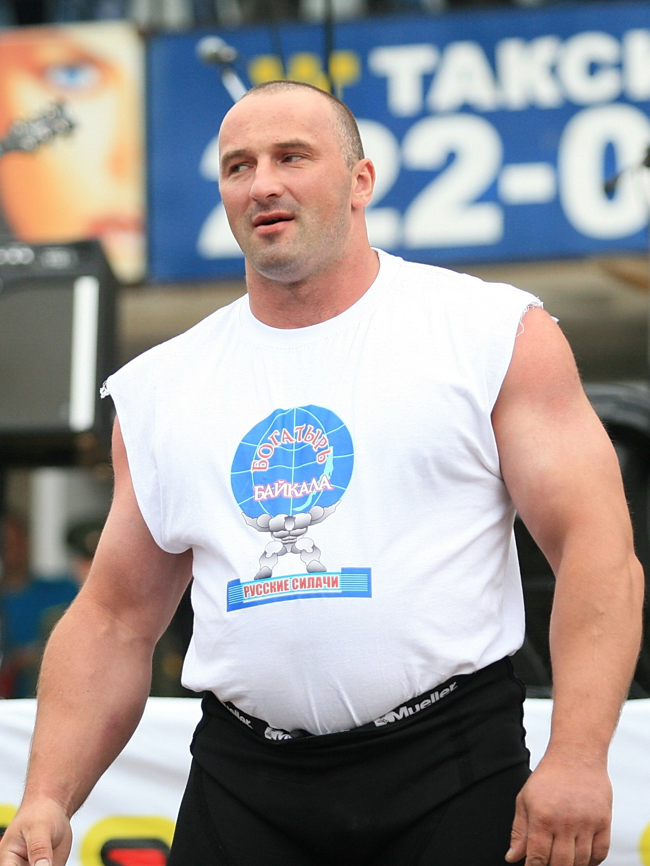 Dmitry Kononets (a strength athlete from Russia).